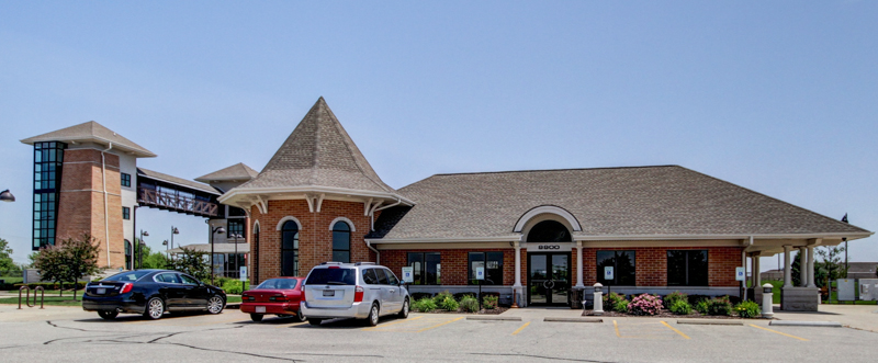 The facade of the Sturtevant station.